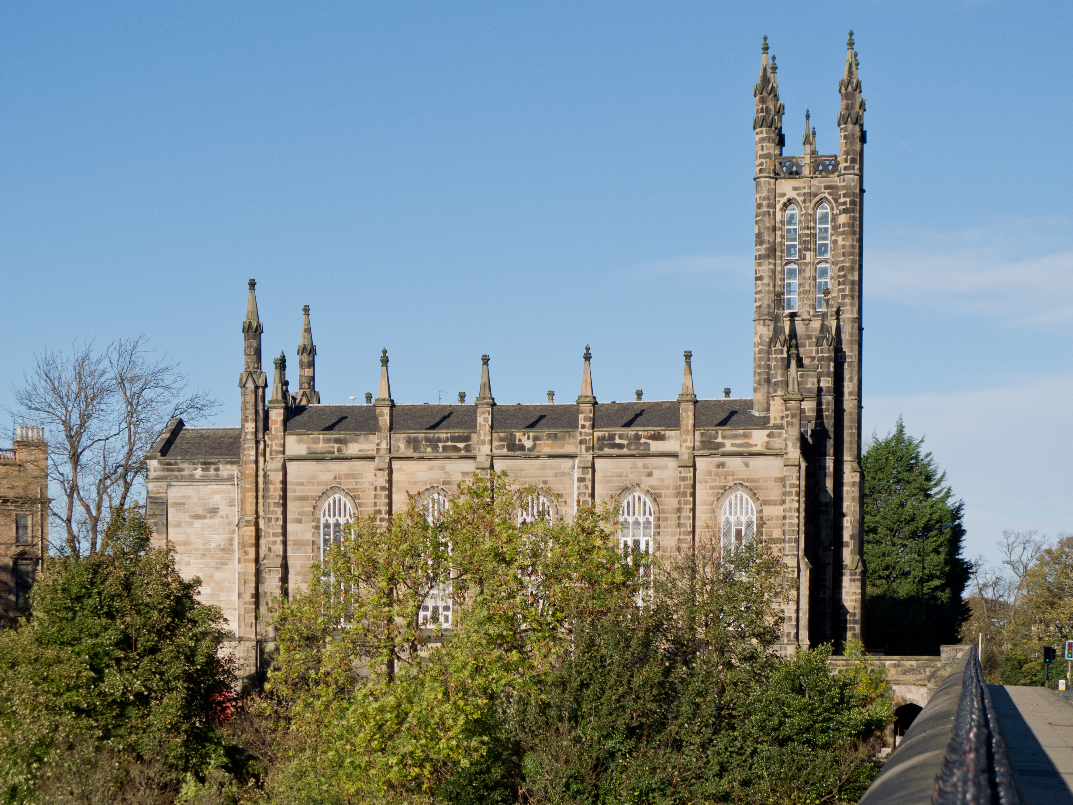 Holy Trinity Episcopal Church, Edinburgh, Scotland, UK. Wikidata has entry Q17807853 with data related to this building.